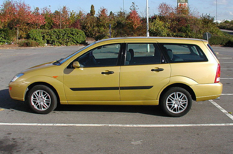 2000 Ford Focus at Filton, Bristol, England.Taken by Adrian Pingstone in October 2003 and released to the public domain.